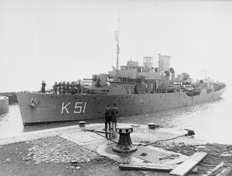 The Royal Navy during the Second World War HMS ROCKROSE coming into harbour.